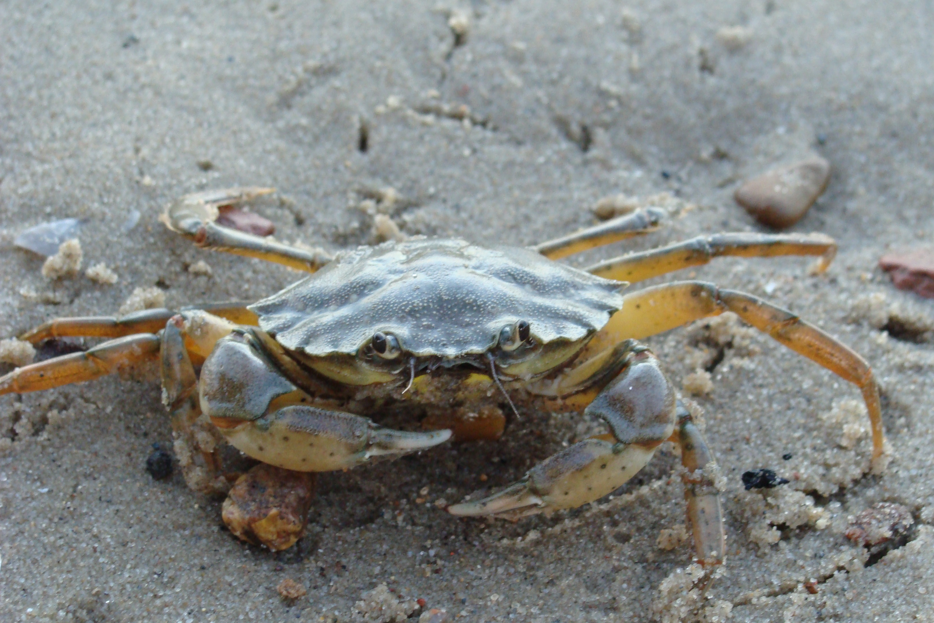 Common shore crab 'Carcinus maenas'